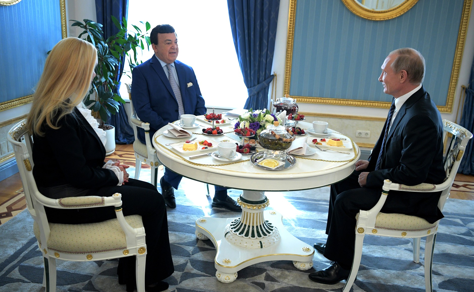 Vladimir Putin congratulated Iosif Kobzon on his 80th birthday. Left: Ninel Kobzon, the singer’s wife.